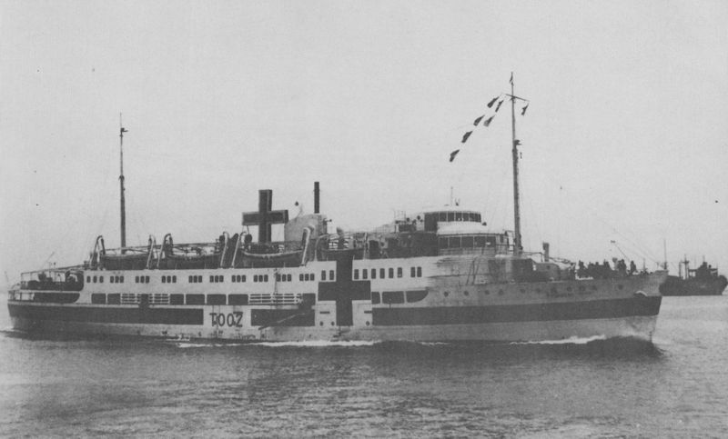 Imperial Japanese Army hospital ship Tachibana Maru